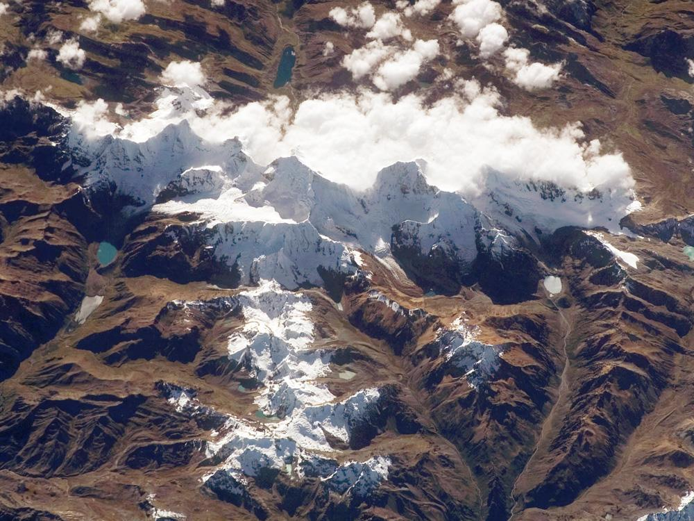 Cordillera Huayhuash from space, looking East North East. Yerupajá and Siula Grande in the centre